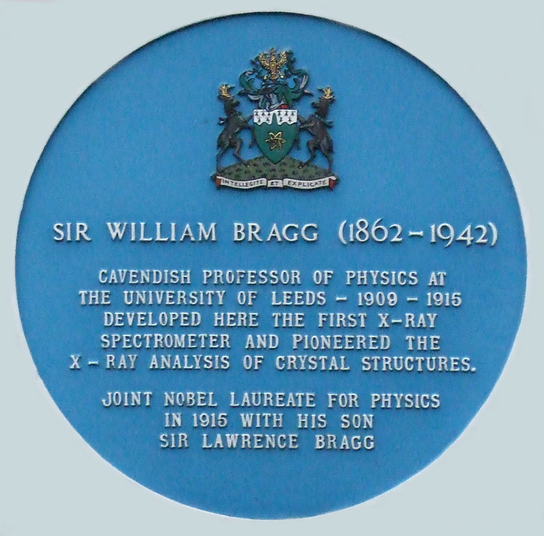 Blue plaque commemorating the Braggs, Leeds University, Parkinson Building This image represents an Open Plaques entry #1689.